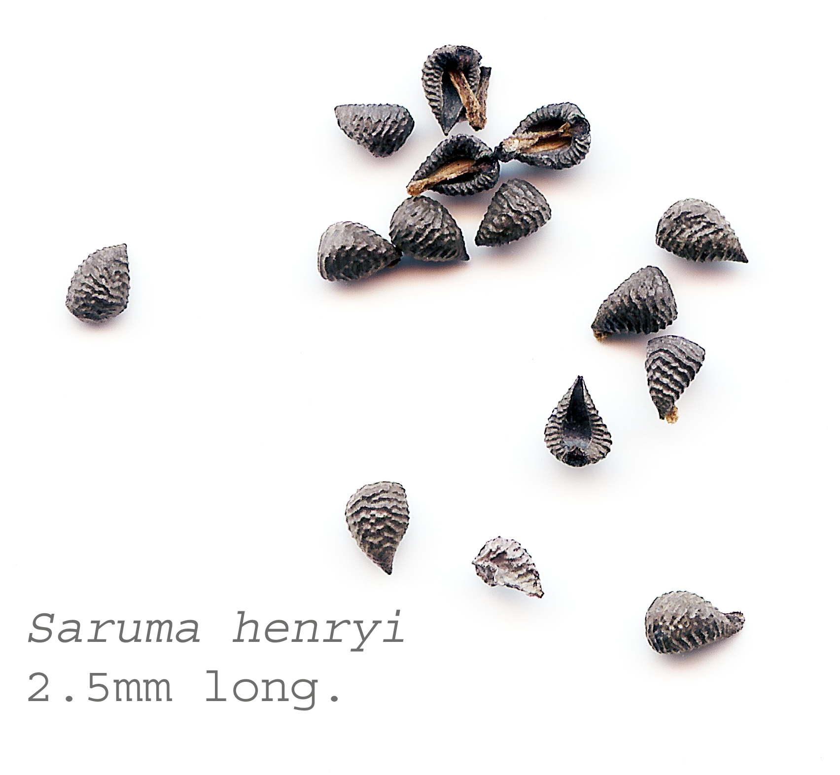 Self made scan of the seeds of Saruma henryi taken 01/04/08